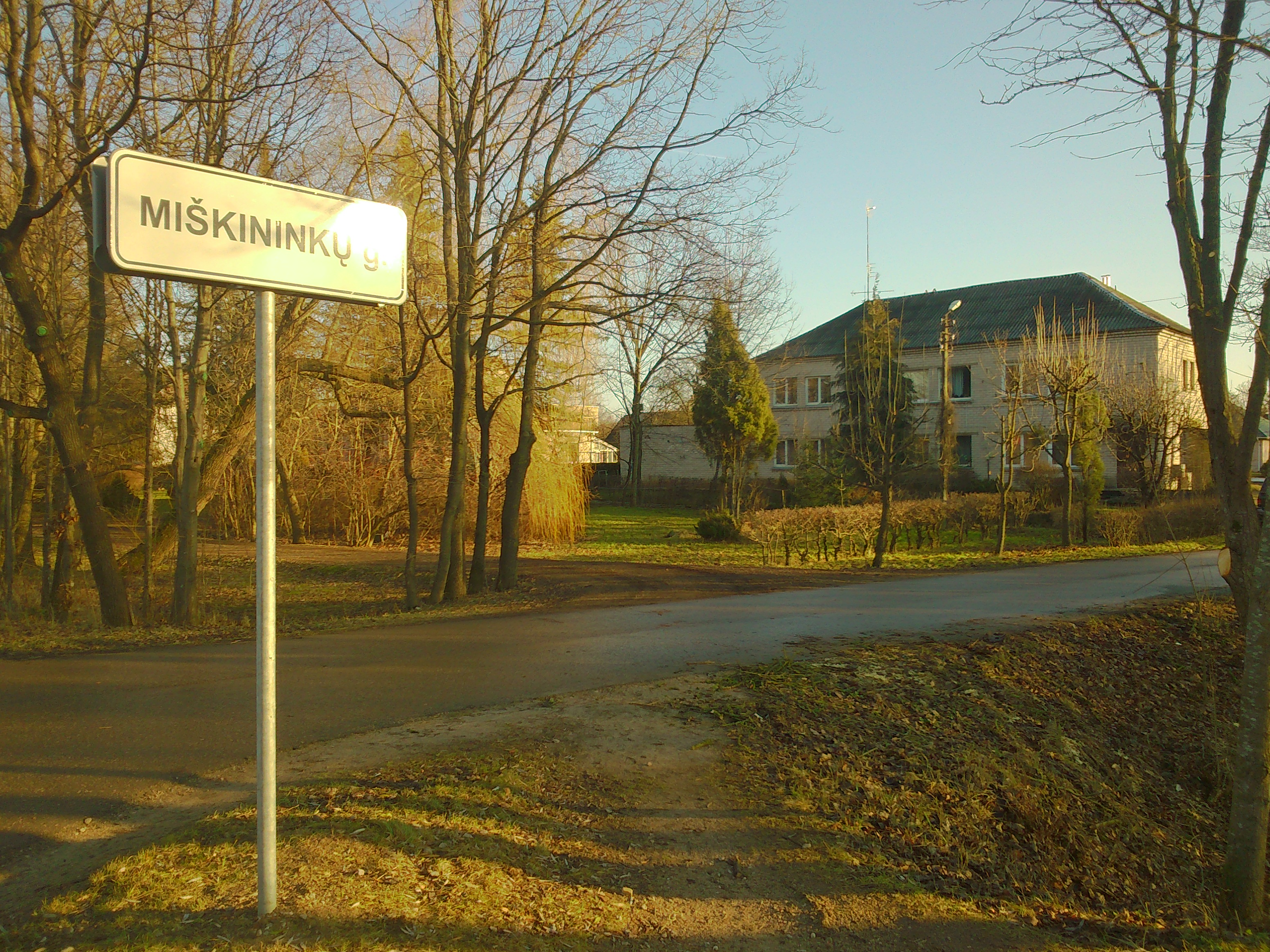 Miskininku Street-Jonava